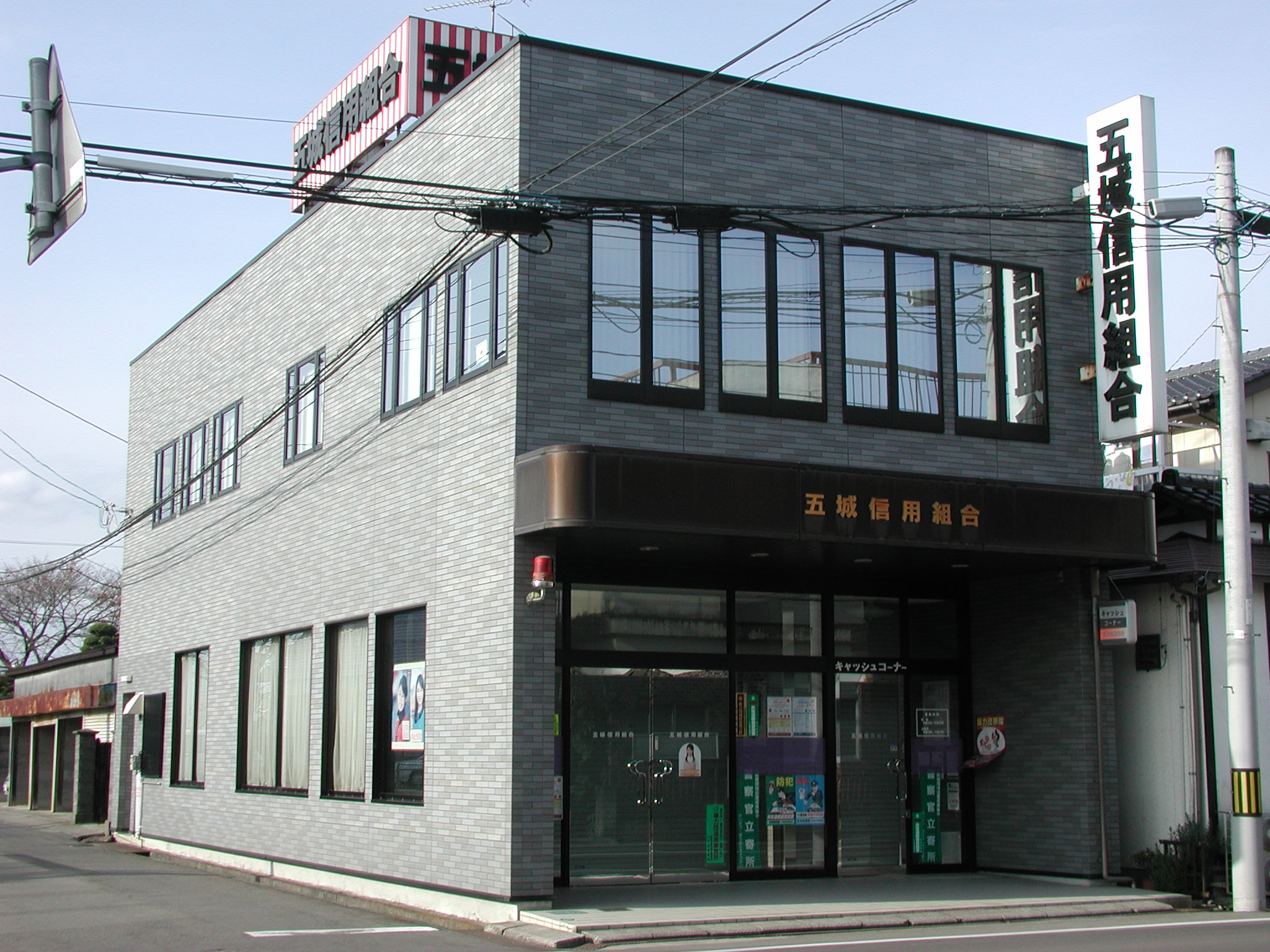 The Gojyo Credit Cooperative Head Shops